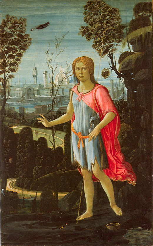 Saint John the Baptist Jacopo del Sellaio Oil on panel, 52 x 32.8 cm Washington, National Gallery of Art